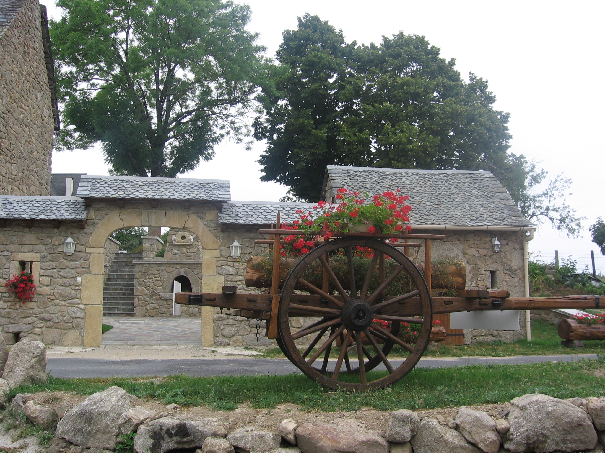 This is a snapshot taken on the way to Santiago de Compostella. I shall document it end of August 2005 Via Podiensis, en passant à Golinhac (Aveyron, Fr) entre Estaing et Entreaygues.